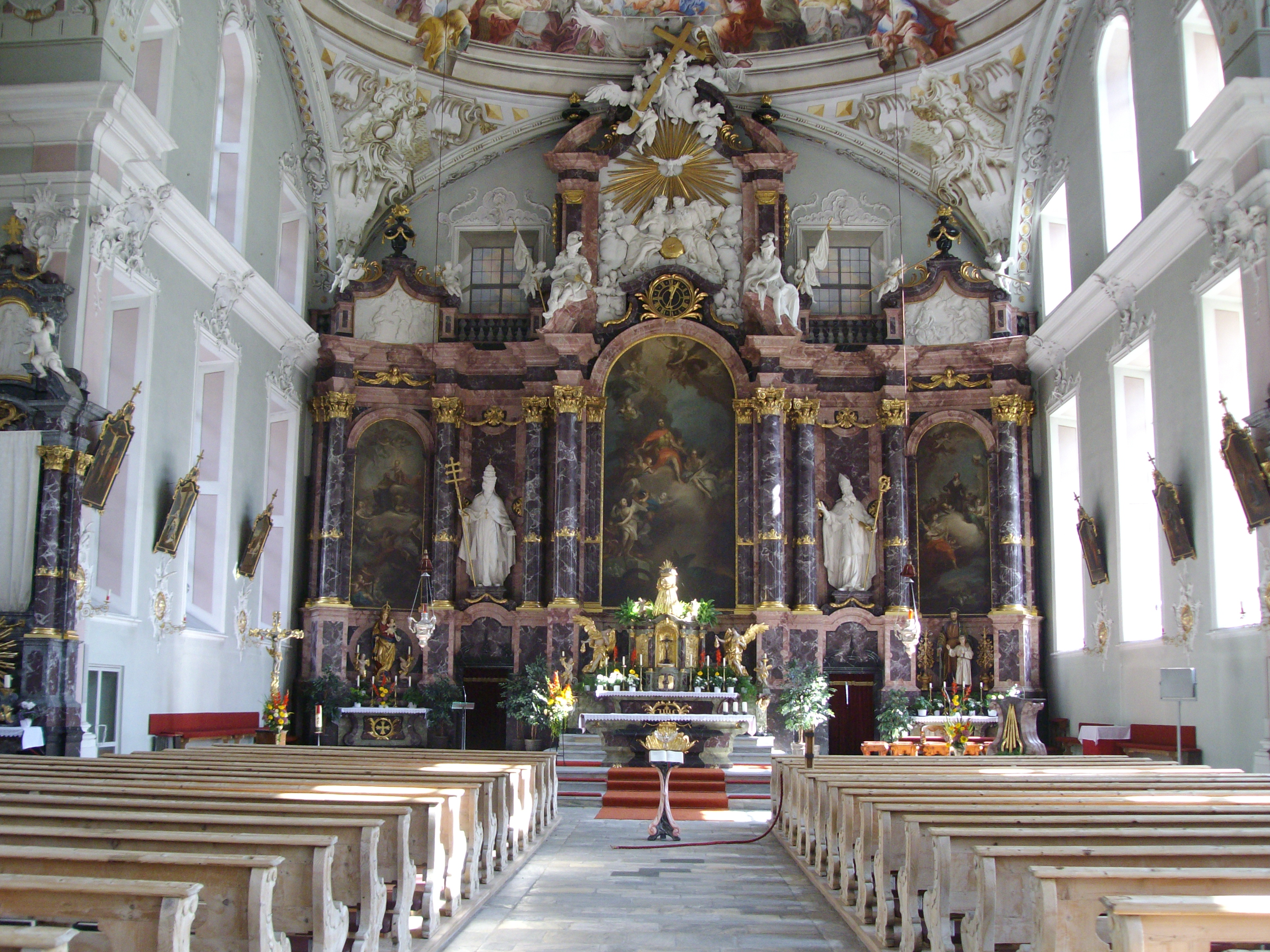 Tyrol (State), Neustift im Stubaital, St. George. The parish church interior sight